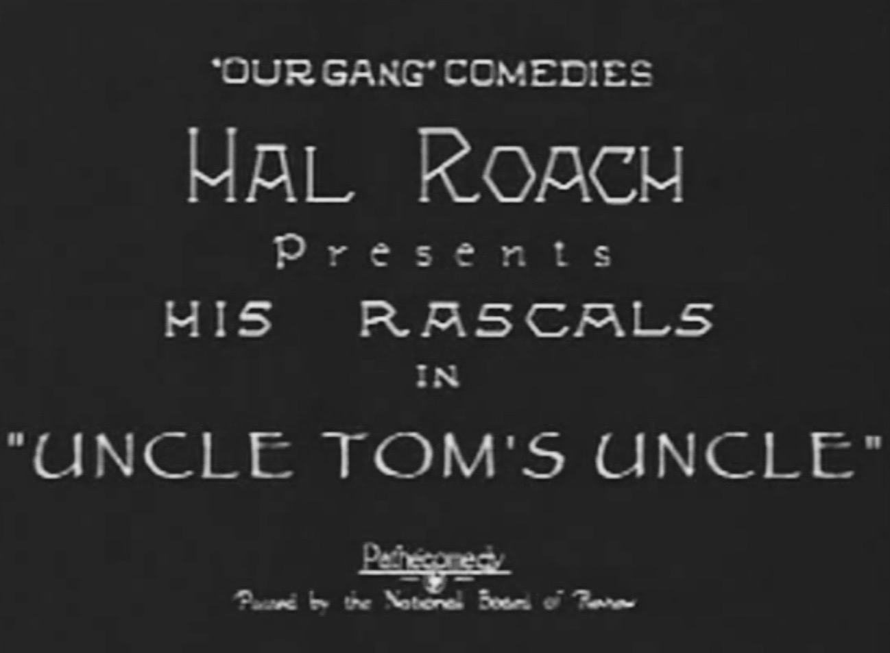 Title card for Our Gang film Uncle Tom's Uncle